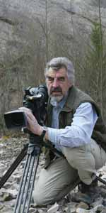 Karlheinz Baumann with camera